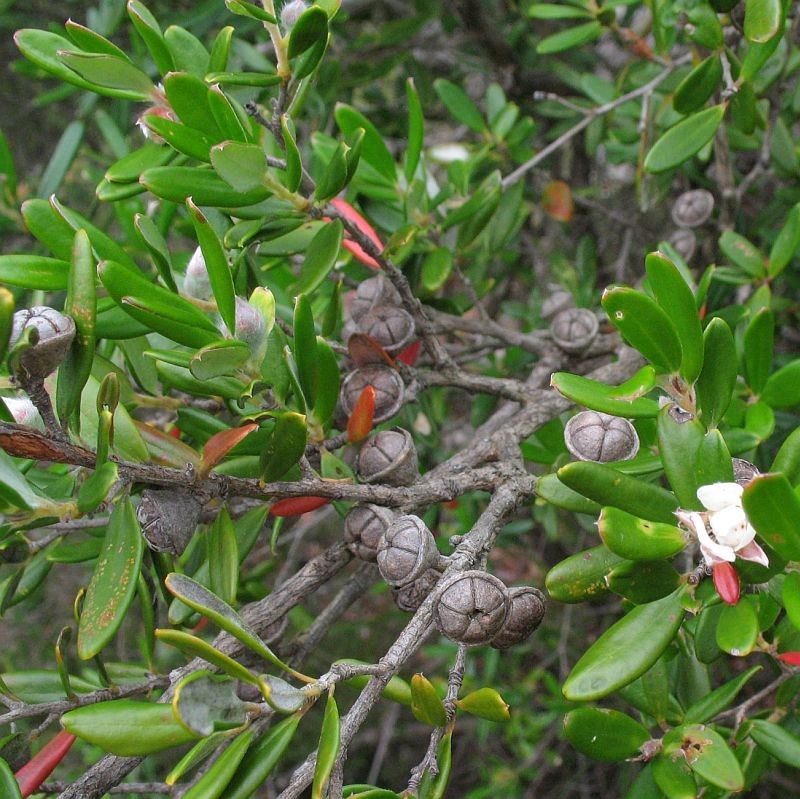 Fruit and foliage of Leptospermum deuense in the Deua National Park